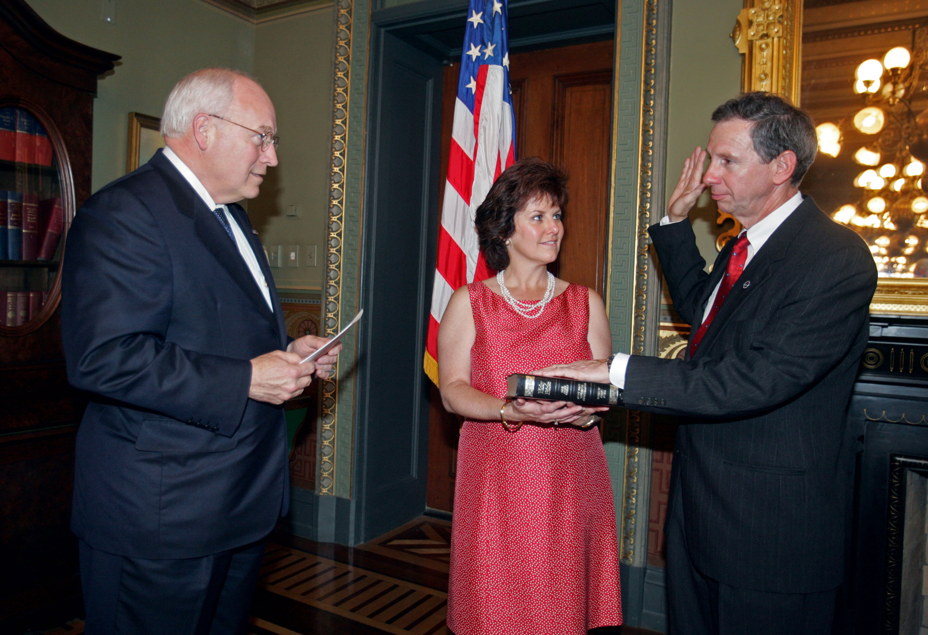 Griffin Formally Sworn In. Vice President Dick Cheney formally swears in NASA Administrator Michael Griffin as his wife, Rebecca Griffin, holds the Bible during a ceremony in the Vice President's Ceremonial Office at the Dwight D. Eisenhower Executive Office Building Tuesday, June 28, 2005. Griffin, who took over the job in April, is the Agency's 11th Administrator.